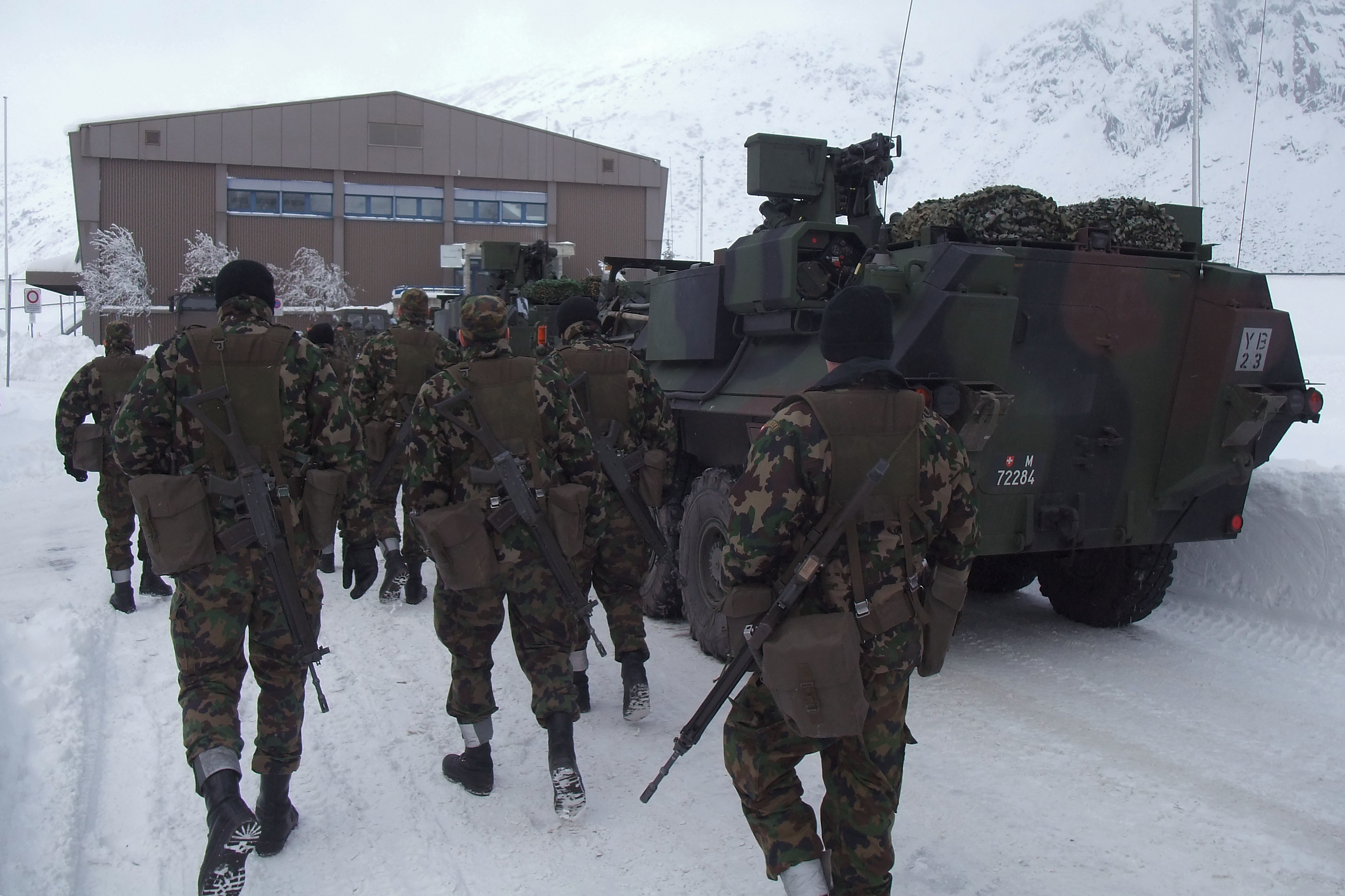 Decampment for training of troops of the Swiss Army at 1436 m/4711 ft.asl in snow and freezing temperatures. Andermatt, Switzerland, Nov 26, 2013.